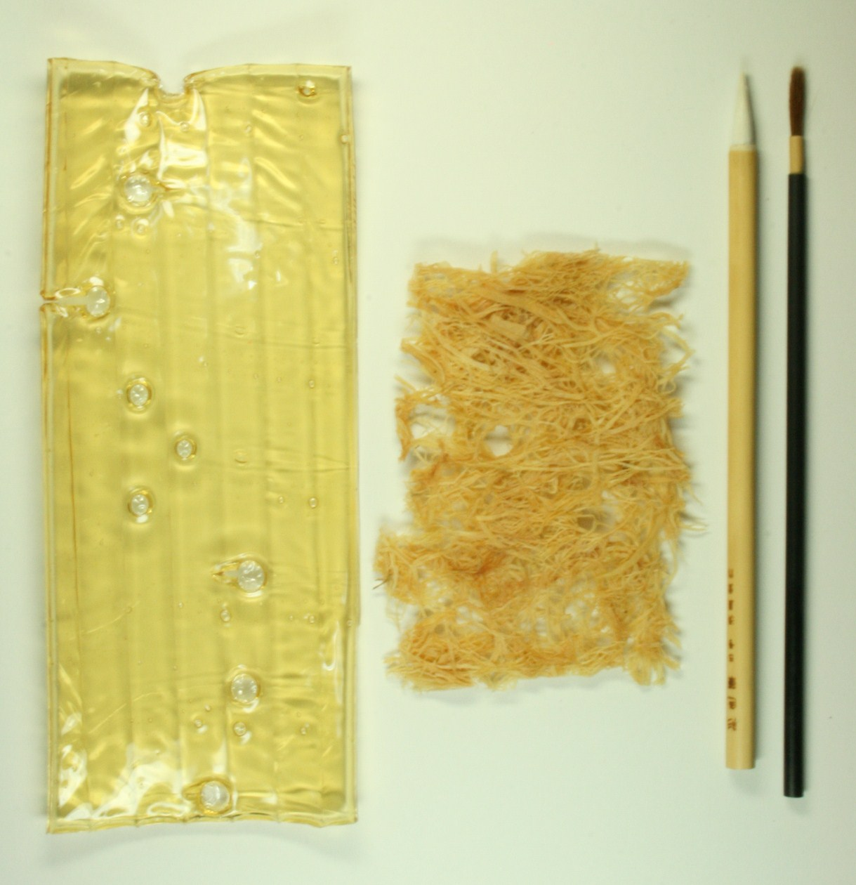 Kirikane tools